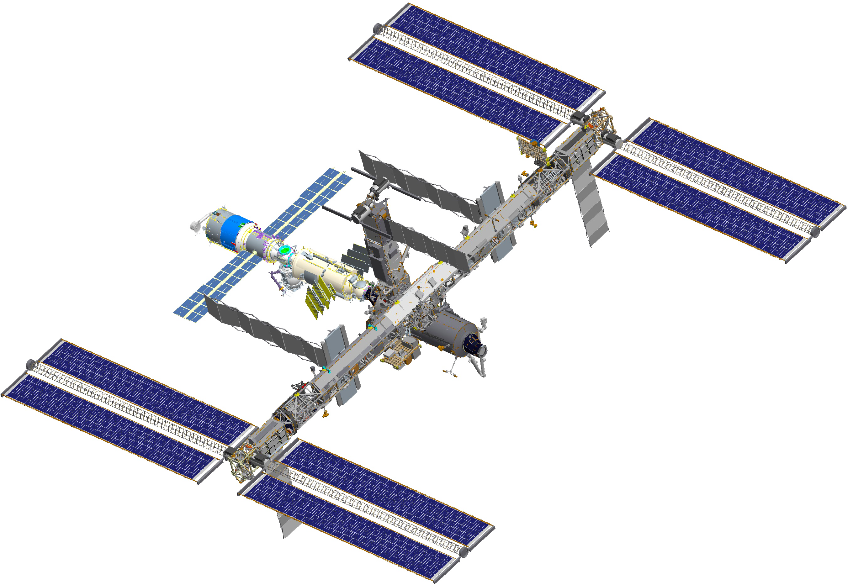 JSC2006-E-33315 (August 2006) --- Computer-generated artist's rendering of the International Space Station after flight STS-118/13A.1.